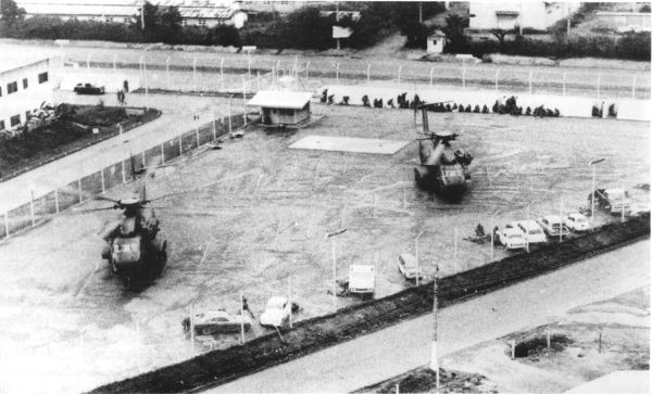 USMC CH-53s at DAO Compound LZ38, Saigon, 29 April 1975